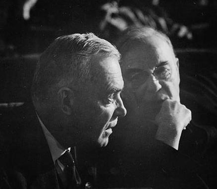 Hon. Louis St. Laurent and Rt. Hon. W.L. Mackenzie King at the United Nations Conference on International Organization